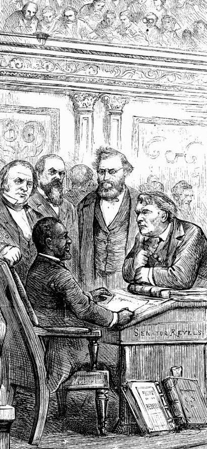 Hiram Revels takes a seat for Mississippi in the U.S. Senate amidst a contemplative group of other senators (from l. to r. : Henry Wilson, Oliver Morton, Carl Schurz and Charles Sumner).